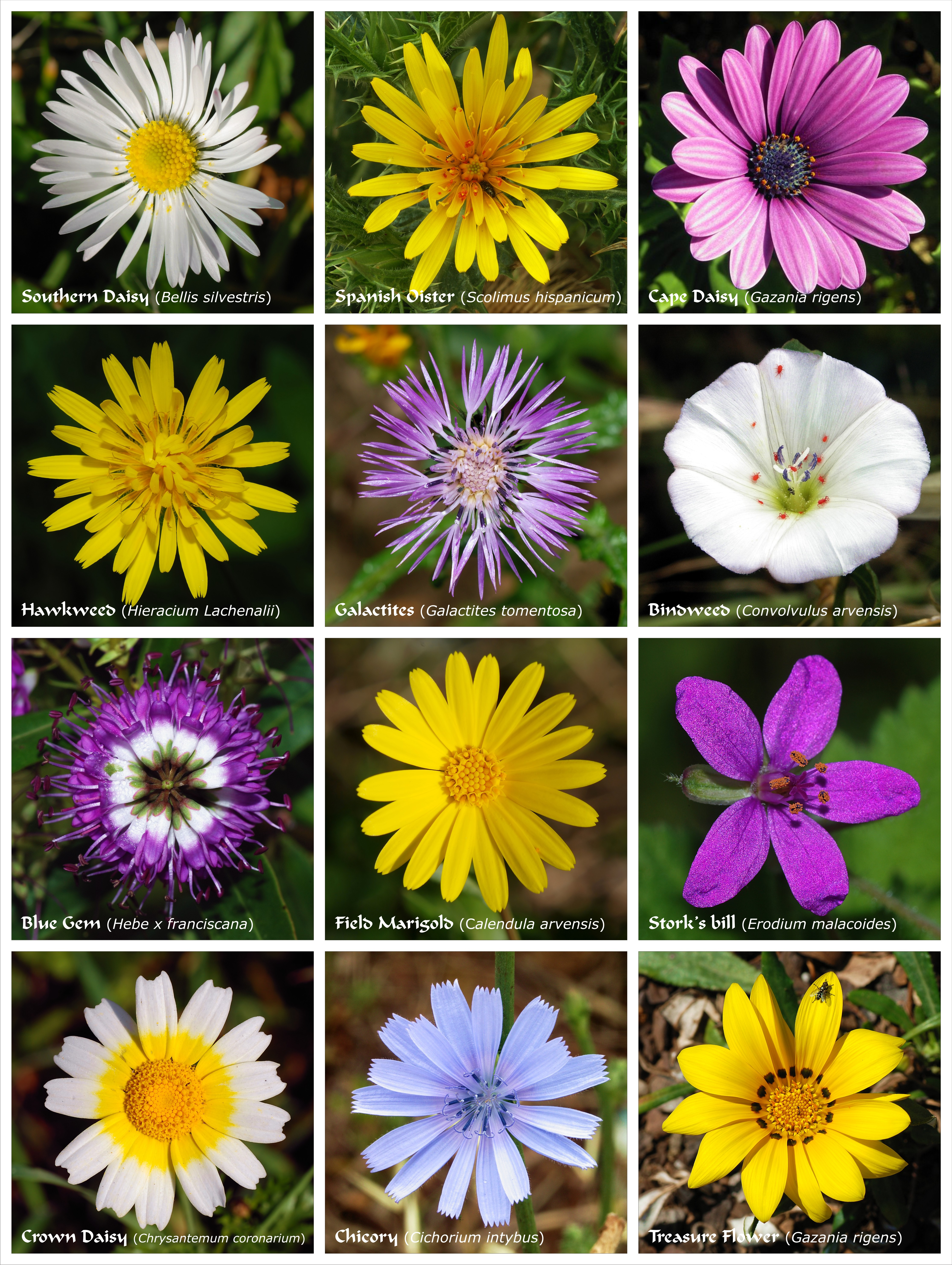 A flower poster.